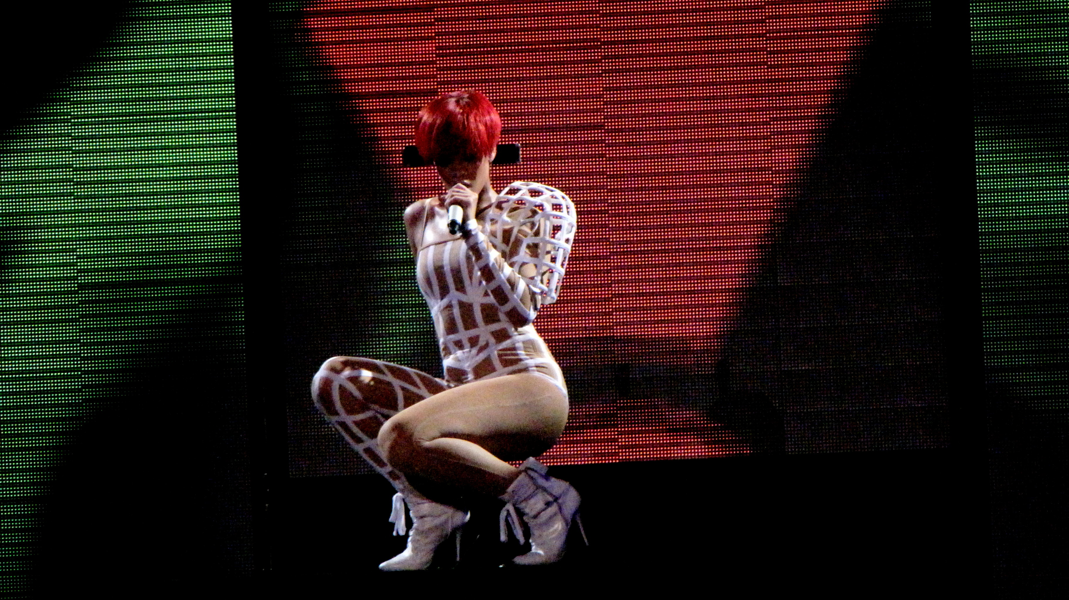 Rihanna in her Last Girl on Earth Tour